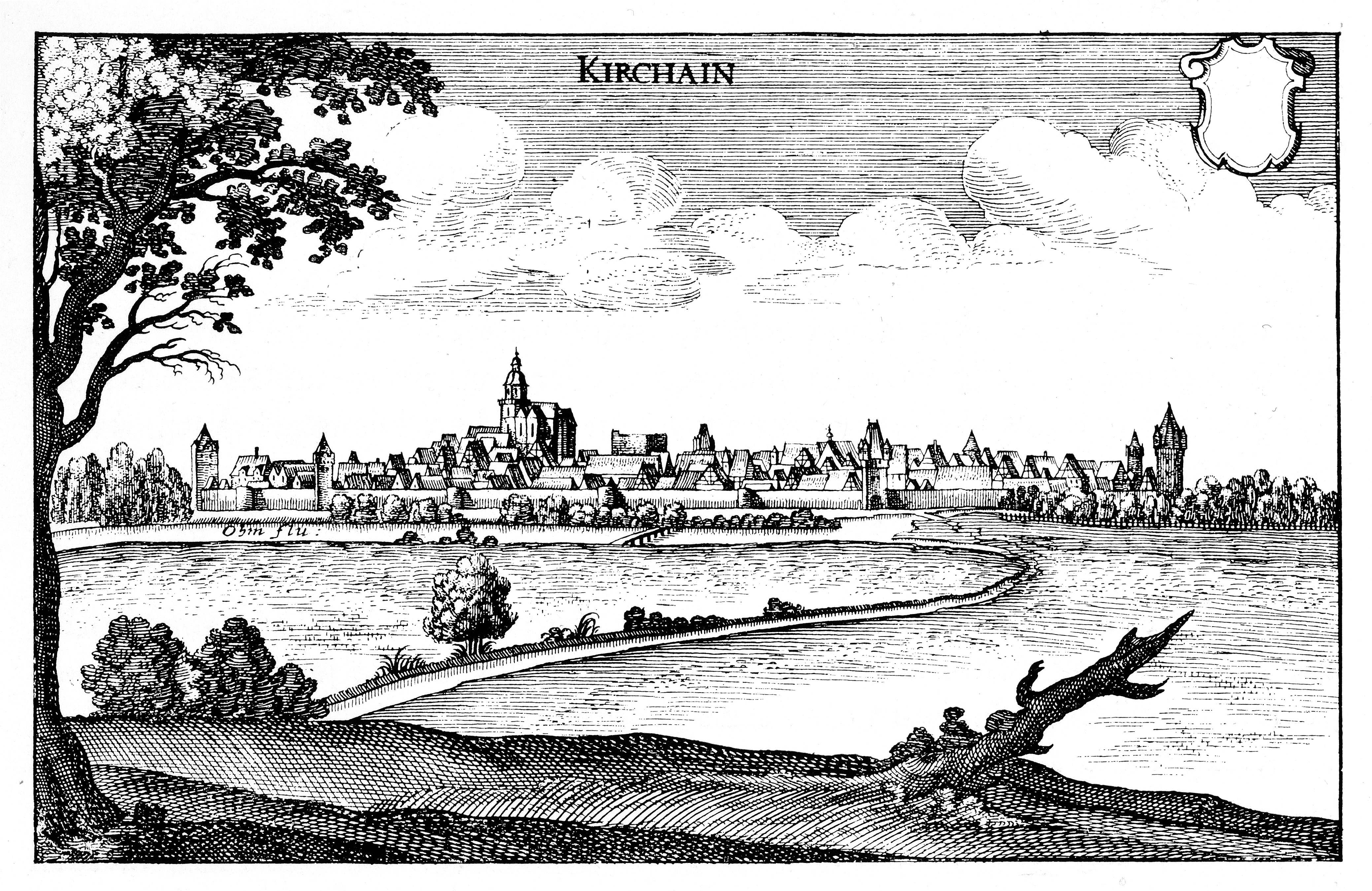 This is a scan of the historical document: Title: Kirchhain - Topographia Hassiae language: german